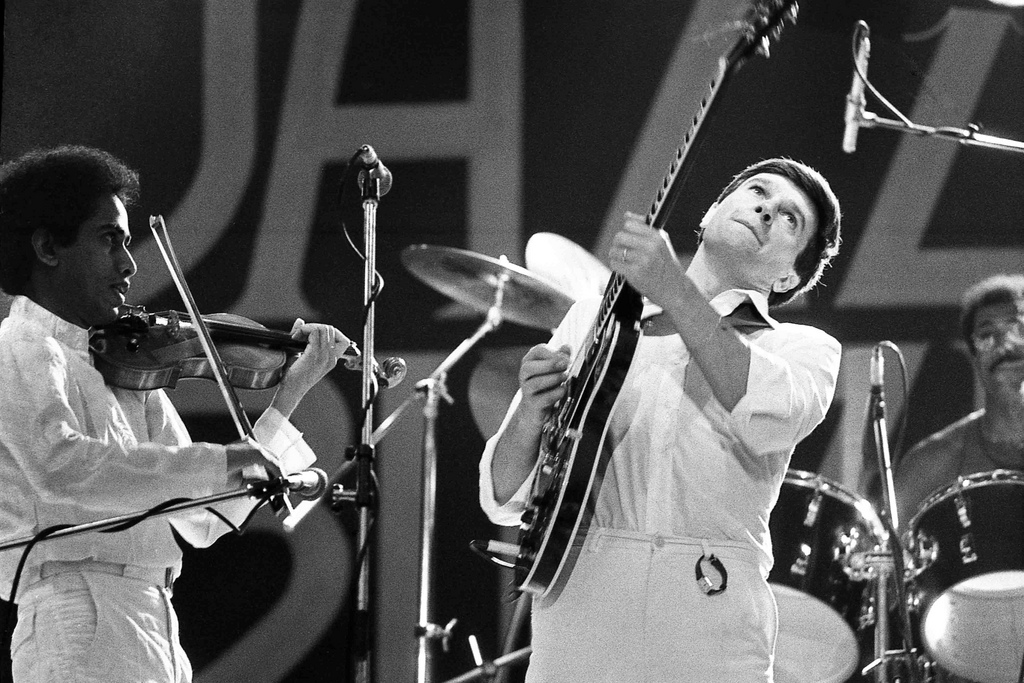 John Mclauglin & L Shankar (left) in One Truth Band, Jazz Bilzen 1978